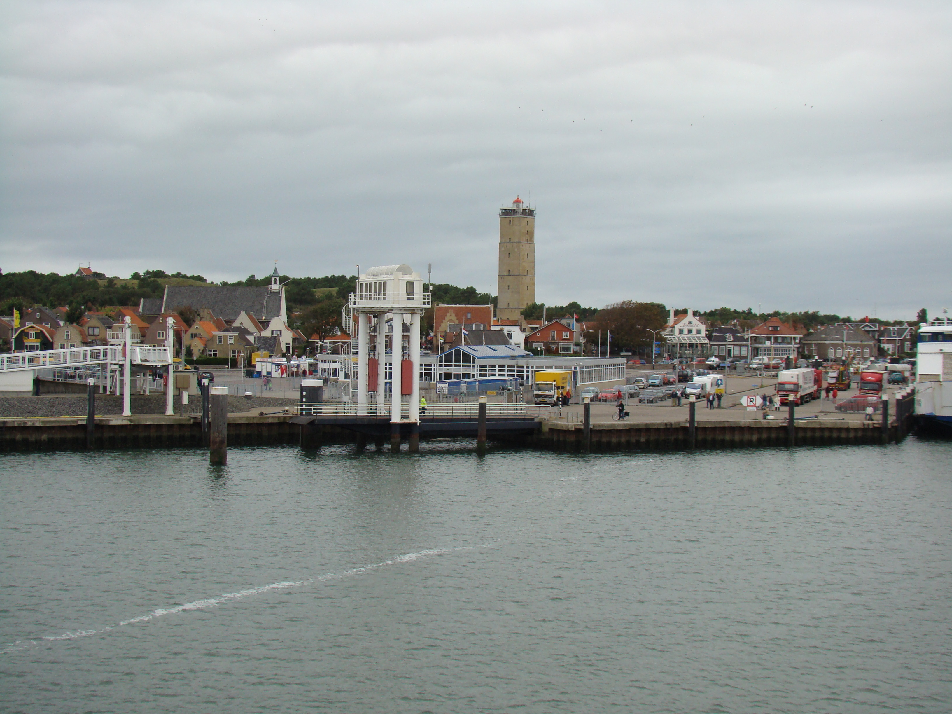 Impressions of the isle Terschelling, Netherlands